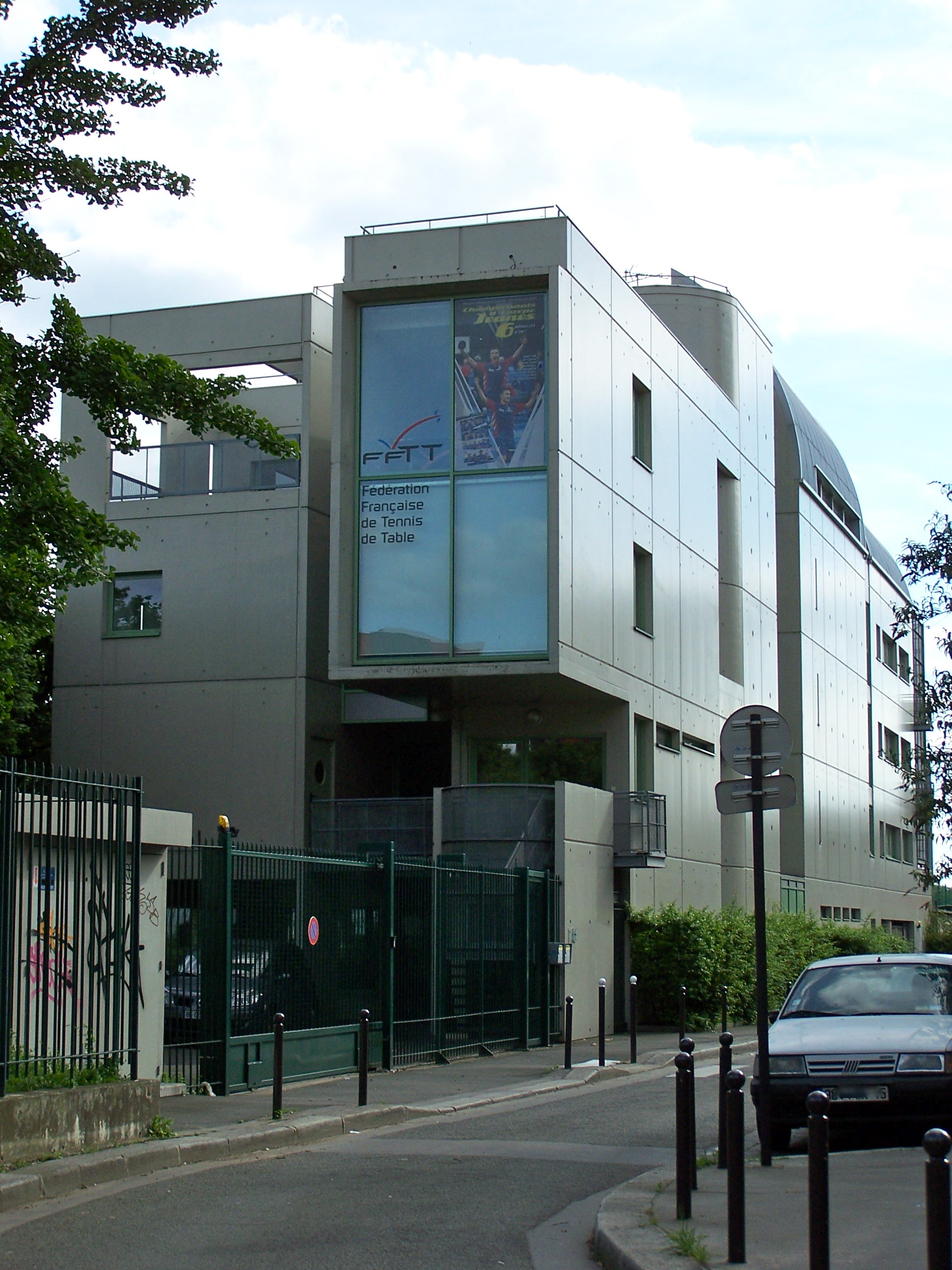 Building of the french federation of table tennis at rue Dieudonné-Costes in Paris